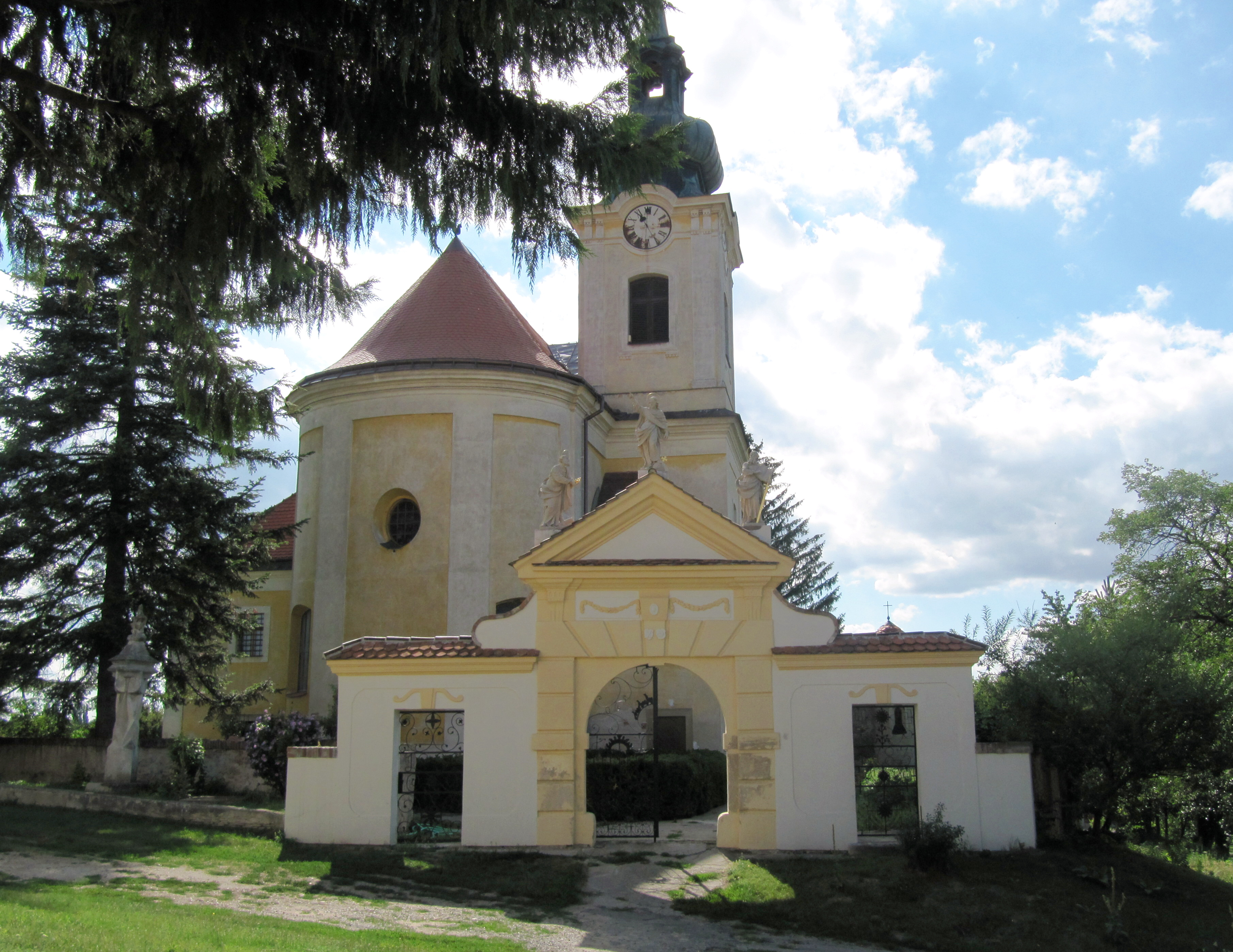 Hrádek in Znojmo District, Czech Republic. Church of St. Peter and Paul from years 1761-64.